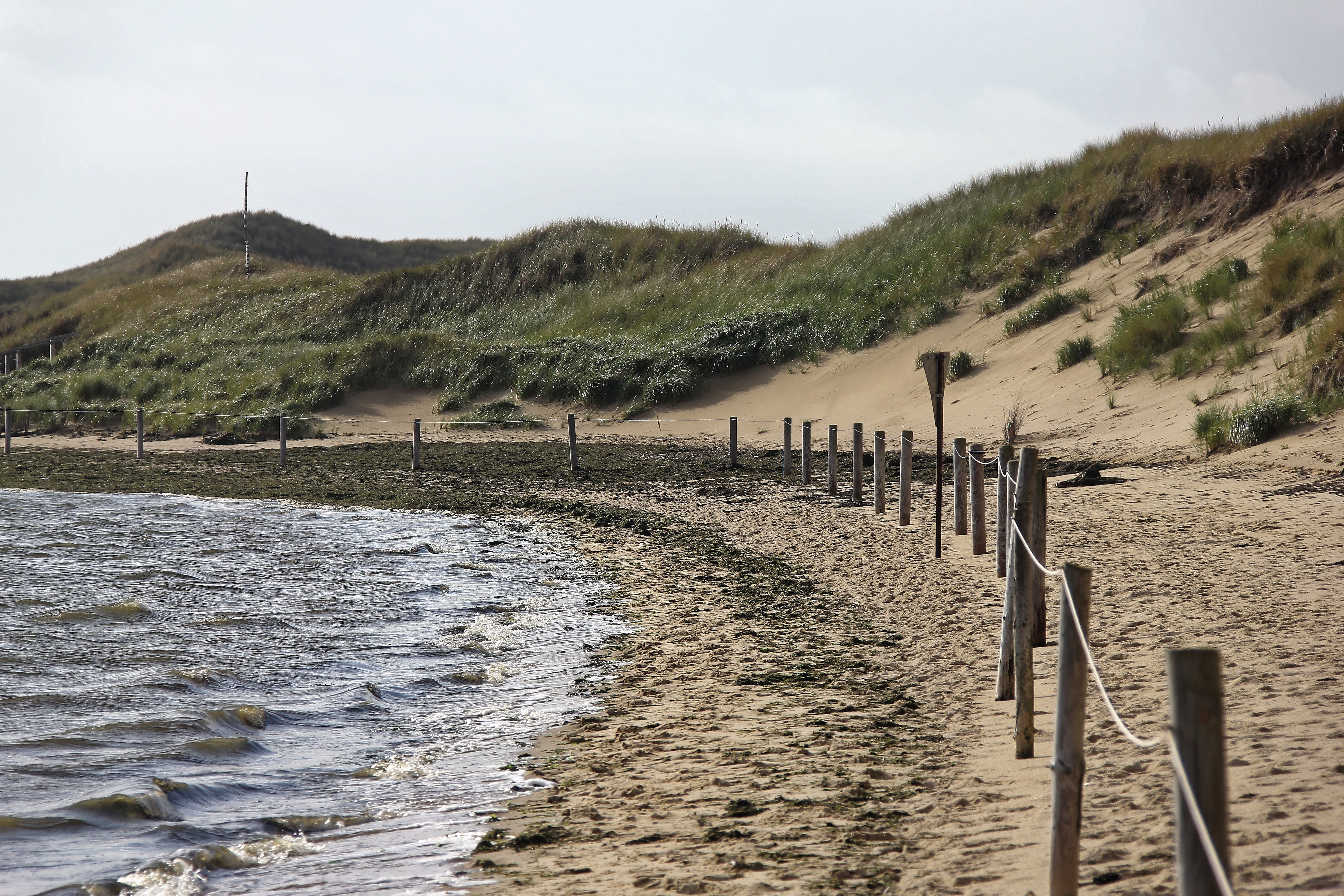 Amrumer Odde nature reserve, dunes of the eastern shore